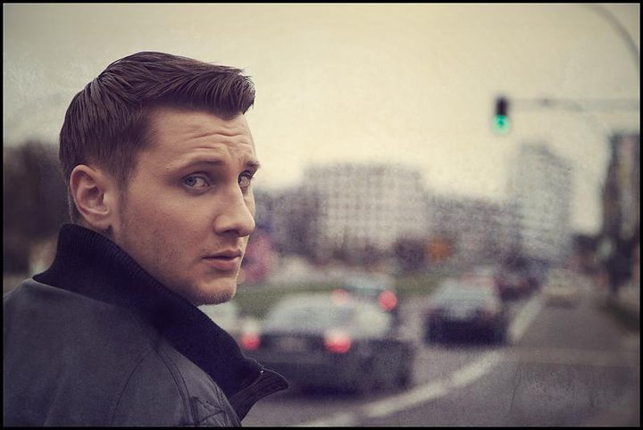 german rapper Taichi